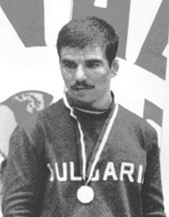 1970 World Wrestling Championships, freestyle 68 kg podium